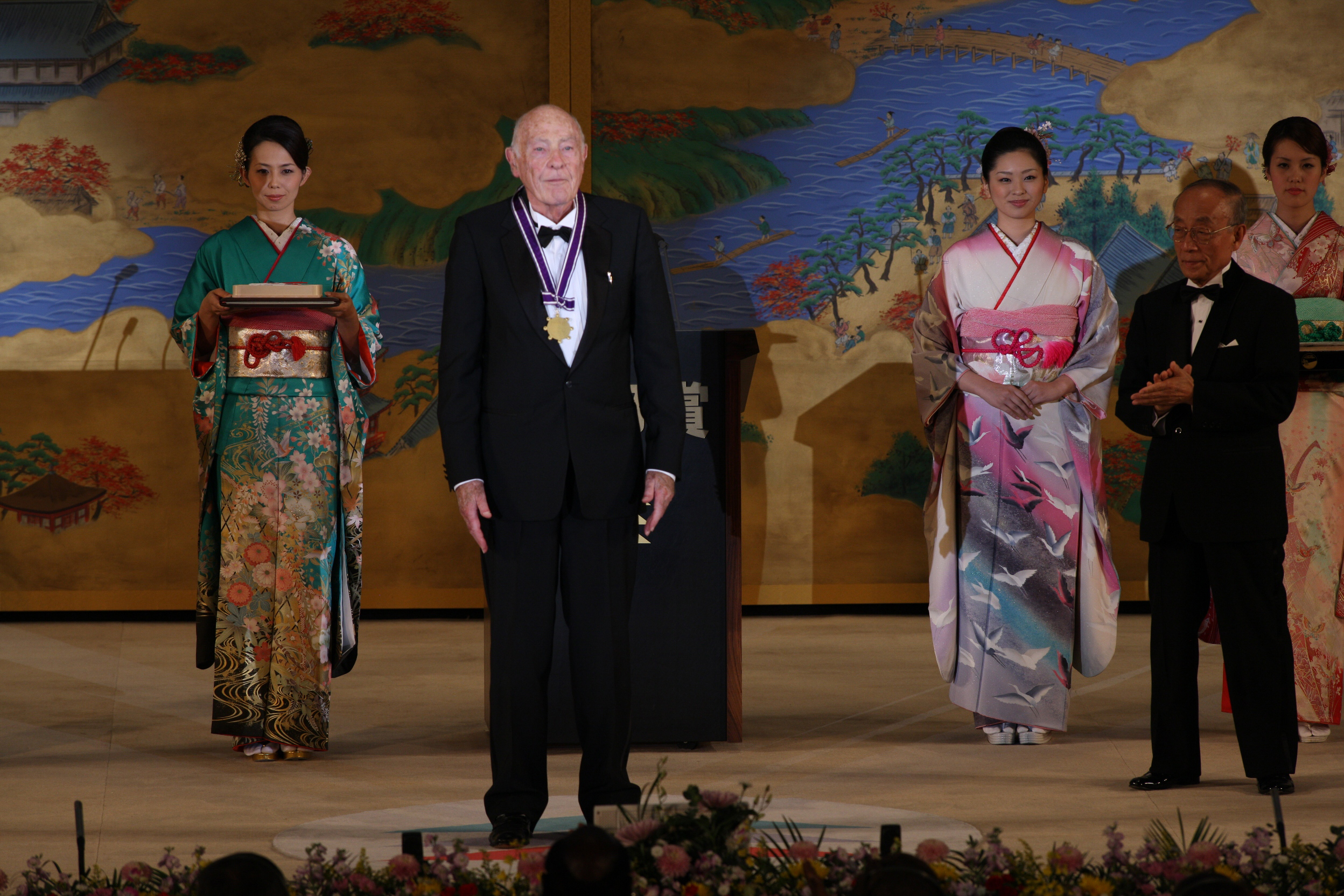 NIST's John Cahn Receives Kyoto Prize Courtesy Inamori Foundation Disclaimer: Any mention of commercial products within NIST web pages is for information only; it does not imply recommendation or endorsement by NIST. Use of NIST Information: These World Wide Web pages are provided as a public service by the National Institute of Standards and Technology (NIST). With the exception of material marked as copyrighted, information presented on these pages is considered public information and may be distributed or copied. Use of appropriate byline/photo/image credits is requested.